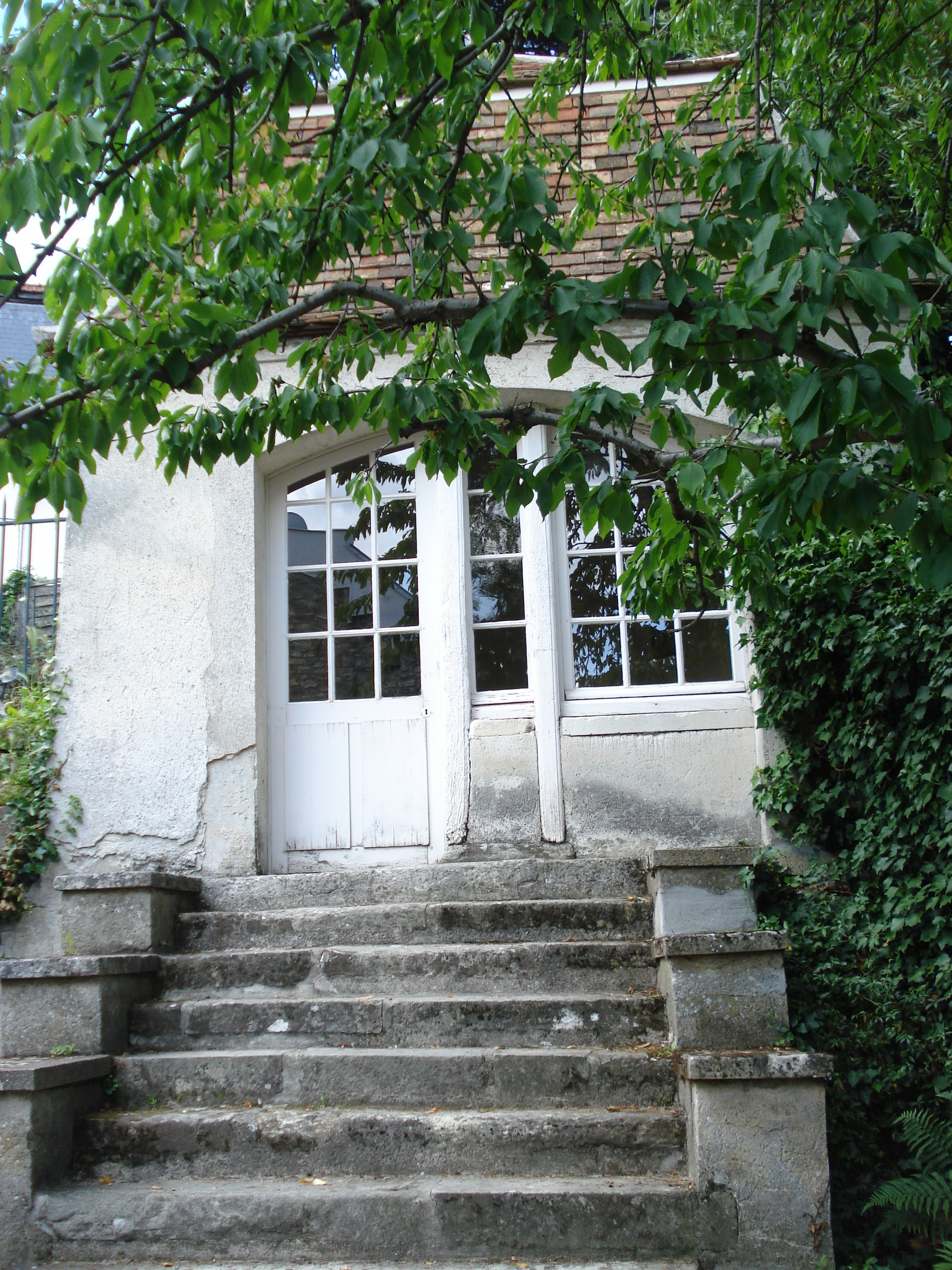 Montmorency (Val-d'Oise, Fr) Museum J.J.Rousseau, little garden house, where Rousseau liked to write.